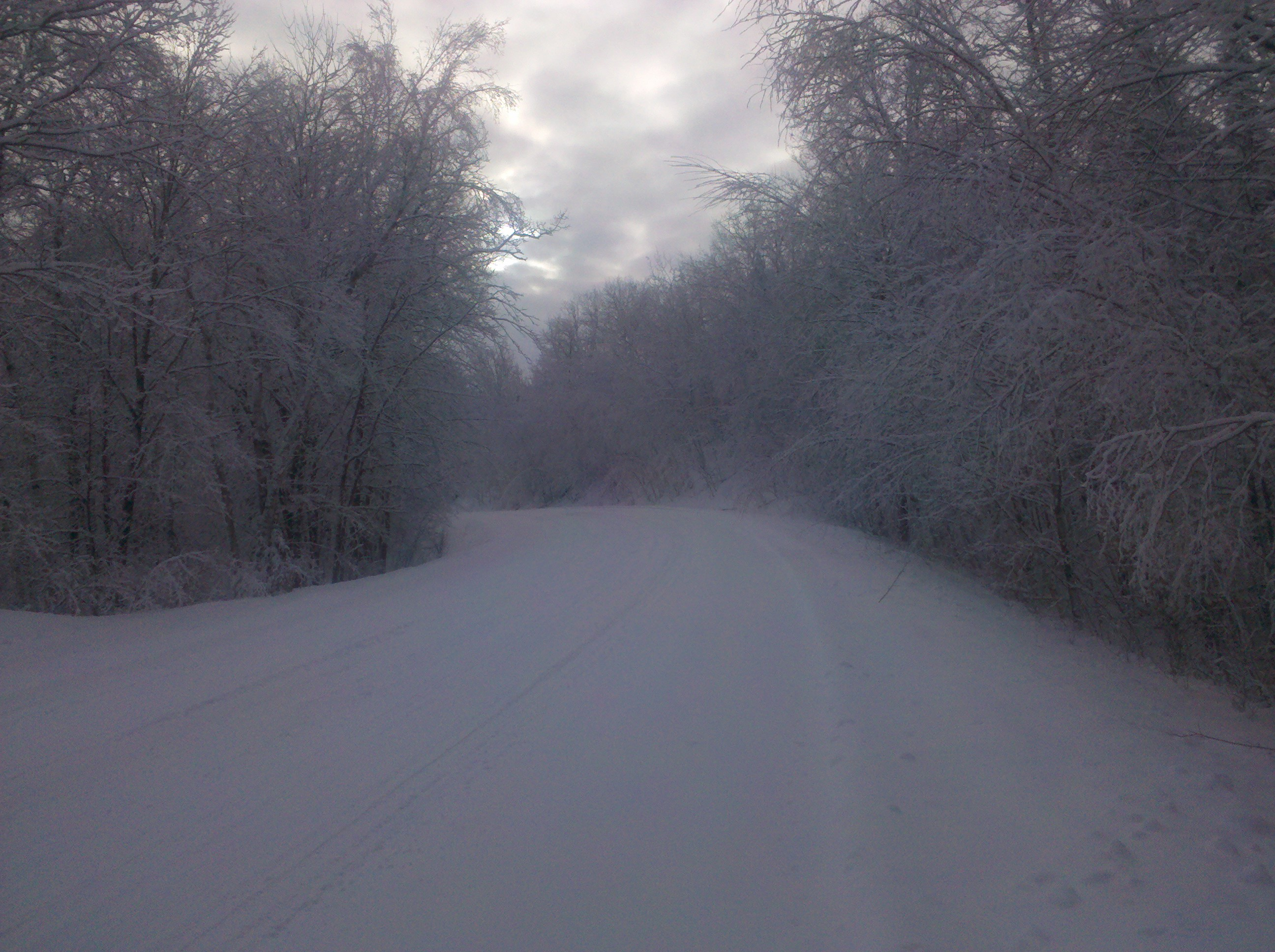 A snow covered lane, referred to as Switzerland Trail, since the 19th century when it was created, now known as Daisy Lane. Aitkin County, Farm Island Township, overlooking Hill Lake.